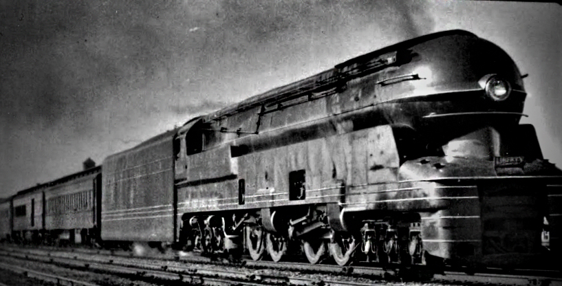 Pennsylvania Railroad Class S1 No.6100, the experimental duplex engine unusually hauling the Liberty Limited during her early service life in 1941. PRR Class S1 was assigned to power much heavier first class train like the General and the Trail Blazer.